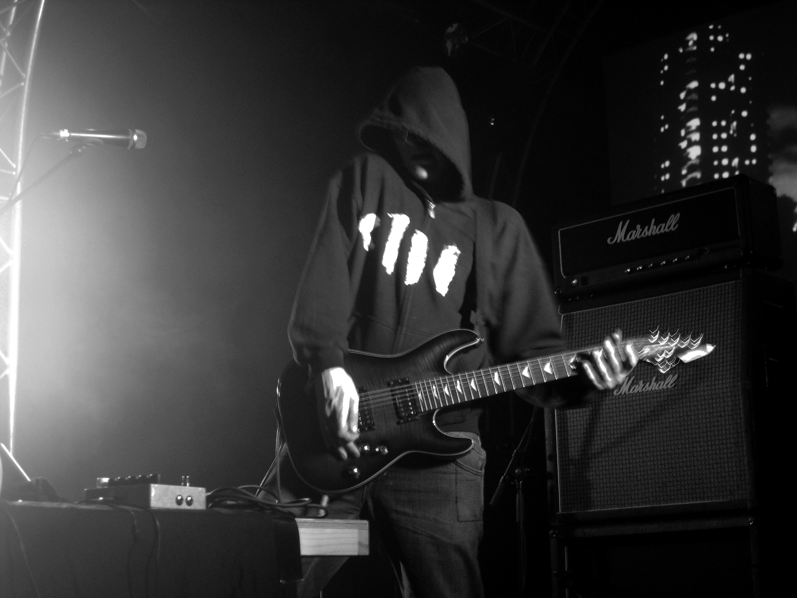 JK Flesh playing at Roadburn Festival, Tilburg, Holland, April 12th 2012.